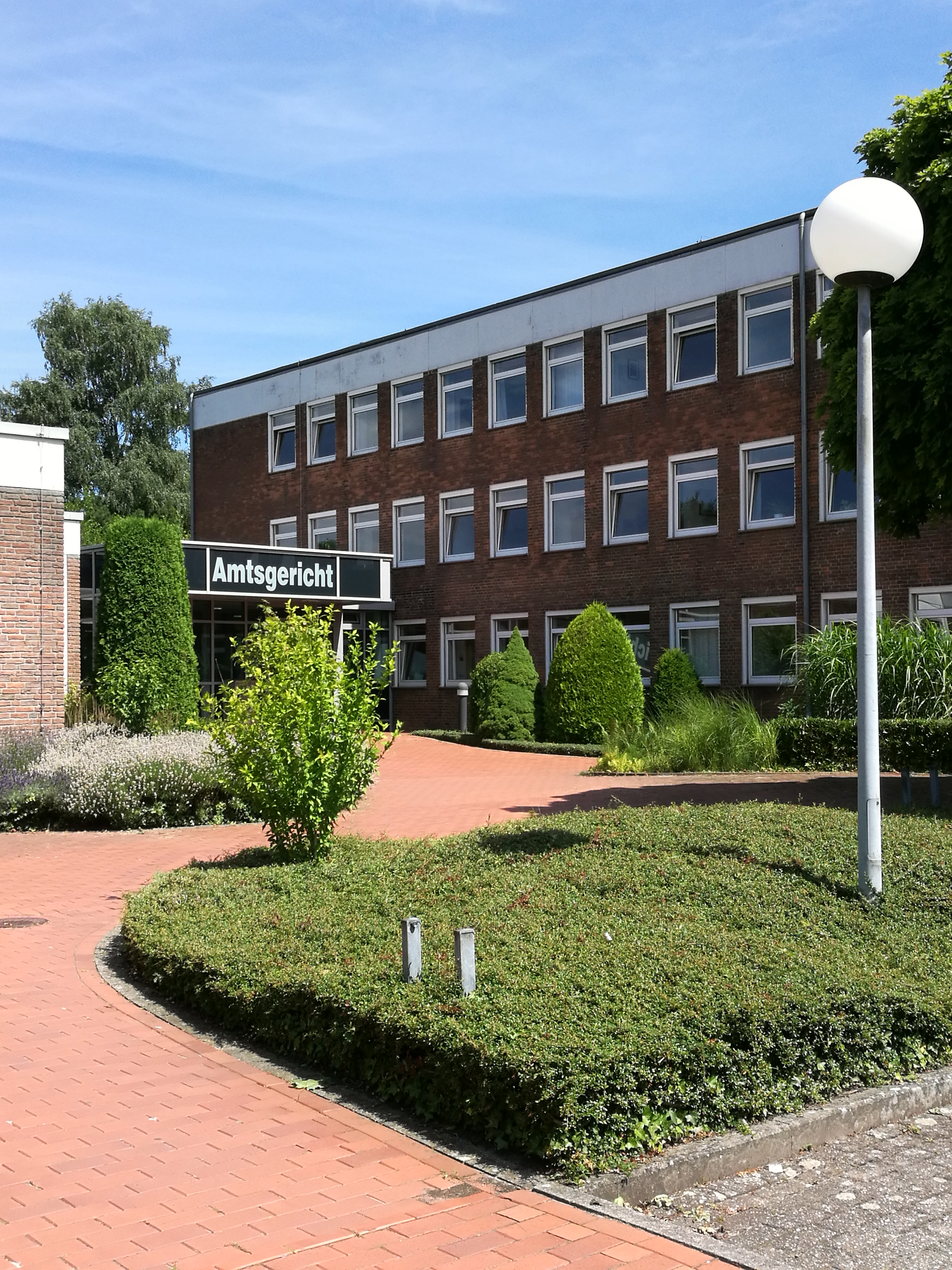 District Court Steinfurt, Germany